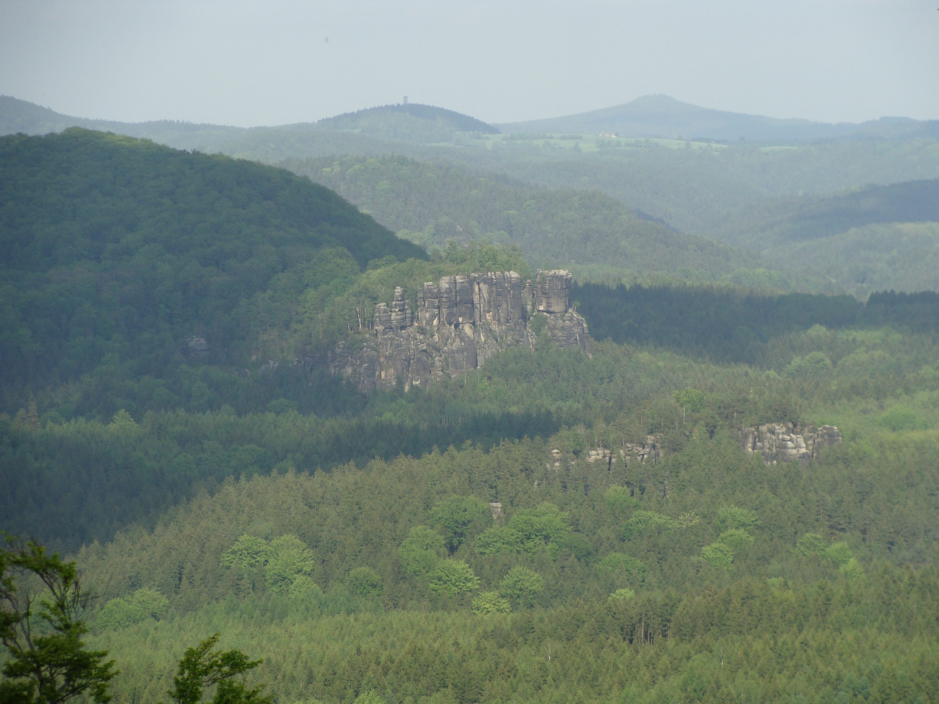 Neuer Wildenstein in Saxon Switzerland